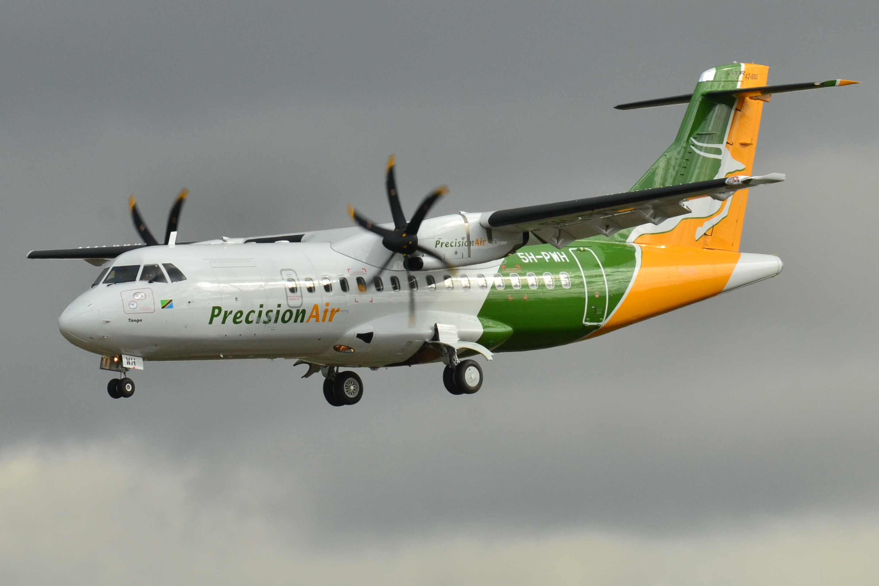 Precision Air ATR 42-600 (5H-PWH) at Toulouse-Blagnac Airport (LFBO)